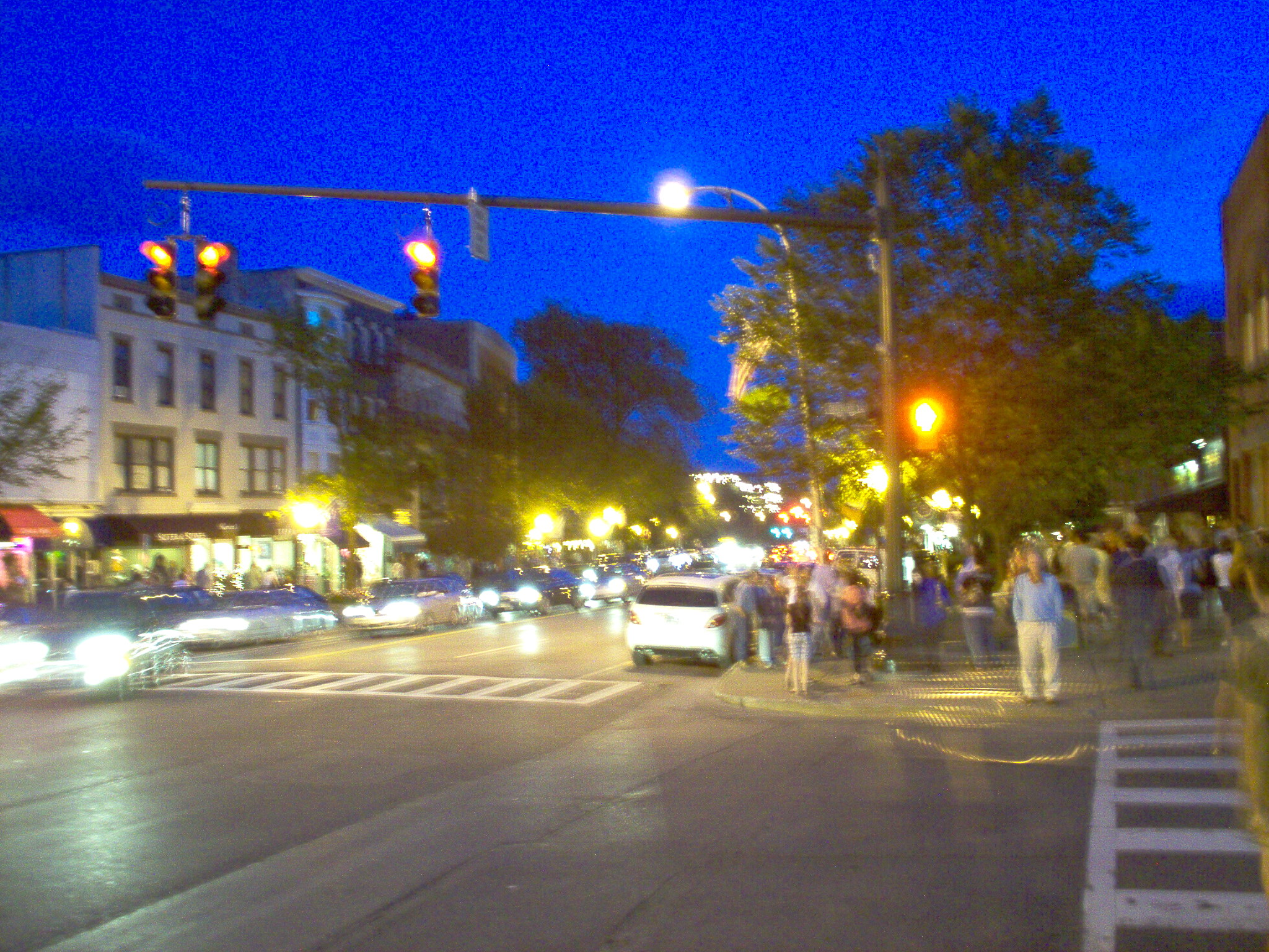 Broadway in Saratoga Springs, New York